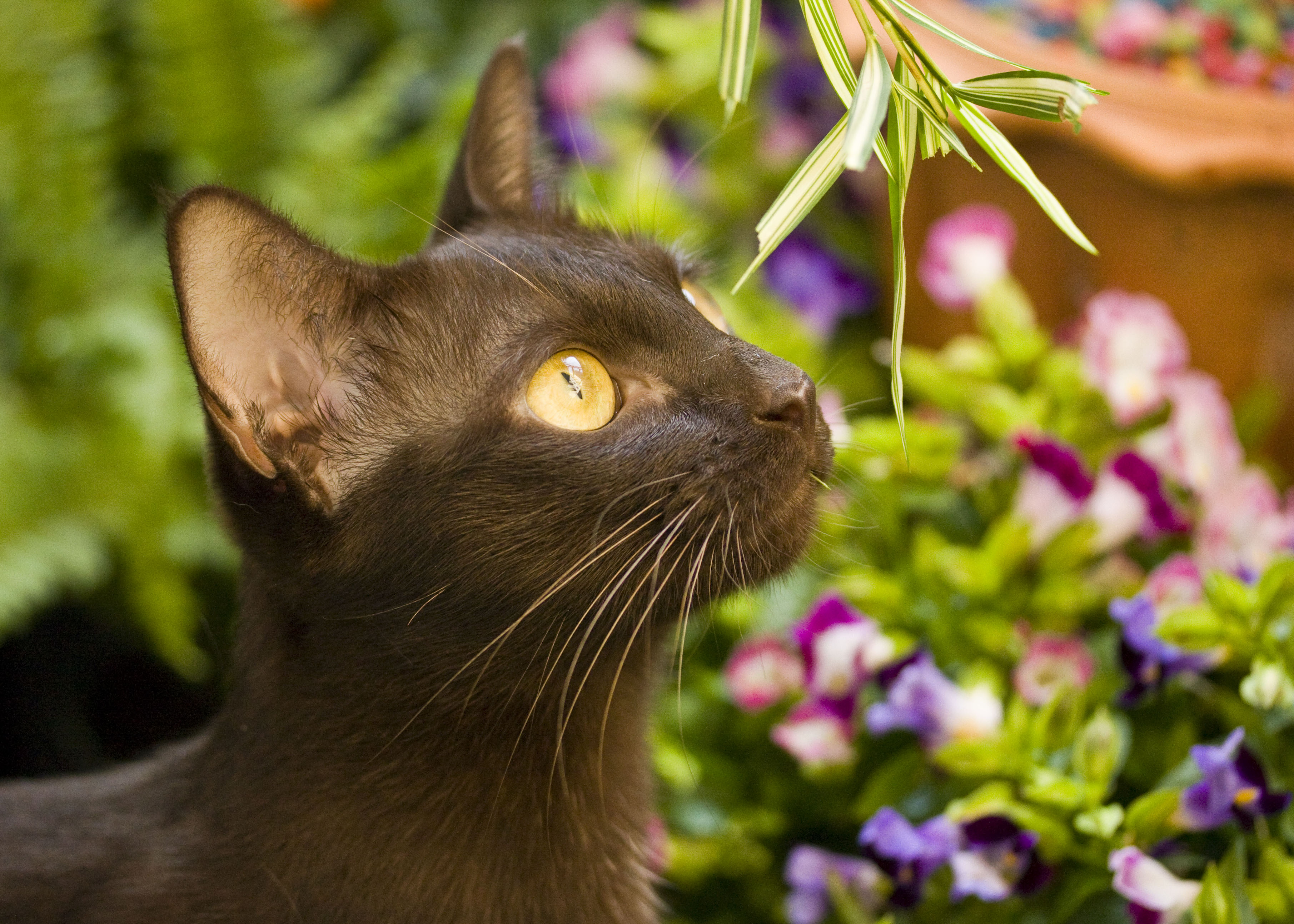 Suphalak Female in Thailand named Ayodia